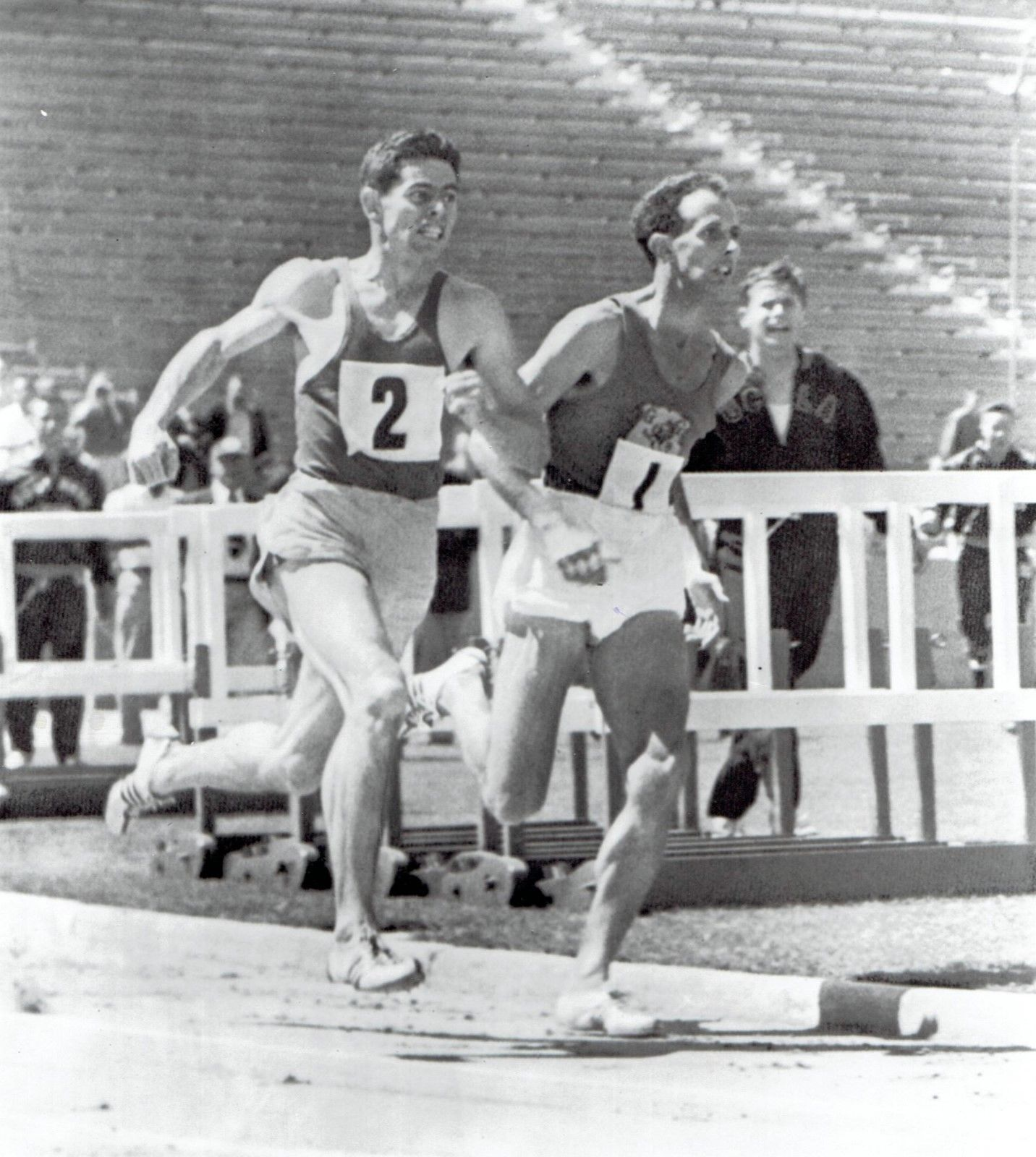 1956 Wire Photo Jim Bailey breaks 4-minute mile John Landy Los Angeles Coliseum